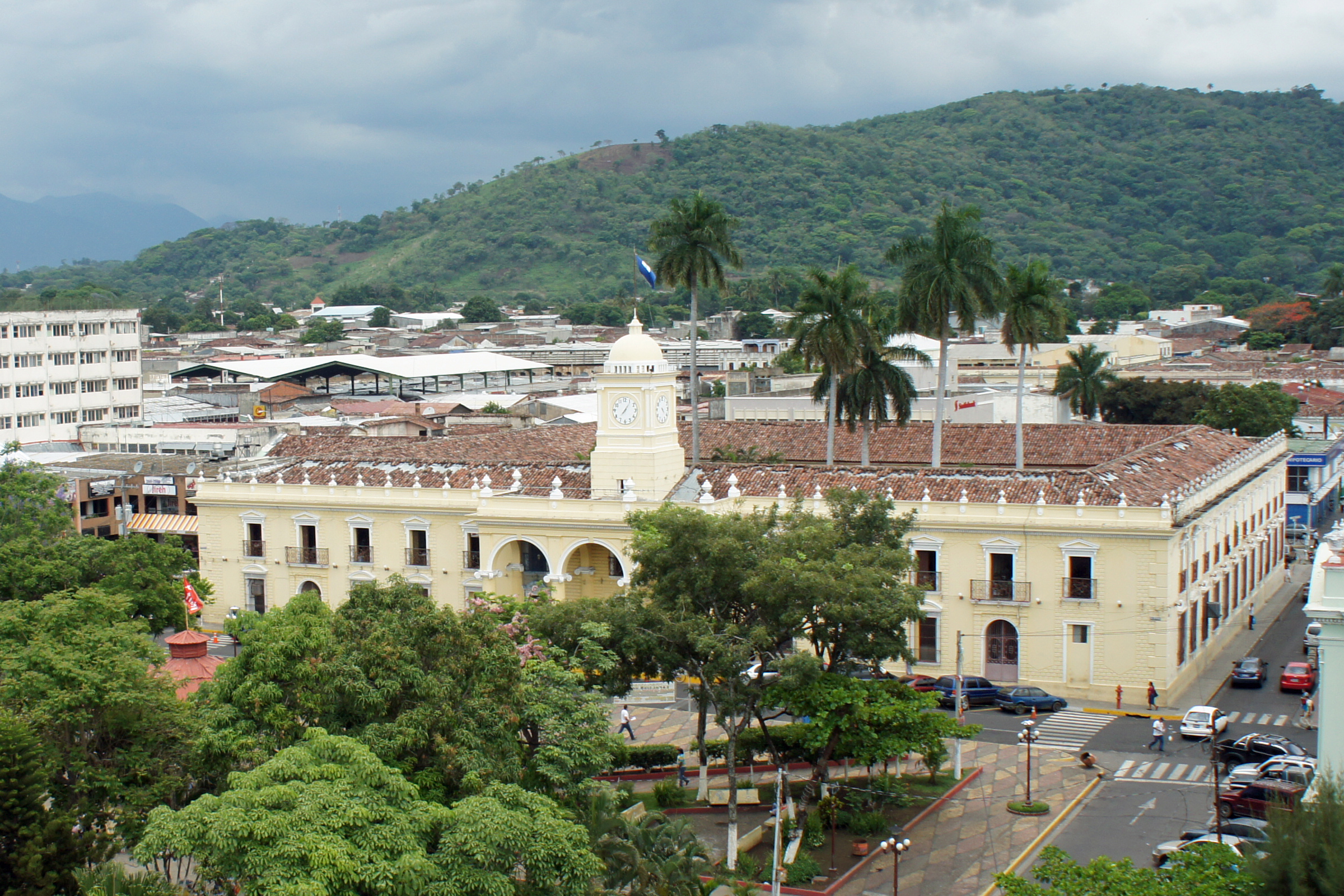 Municipal Palace, Santa Ana, El Salvador